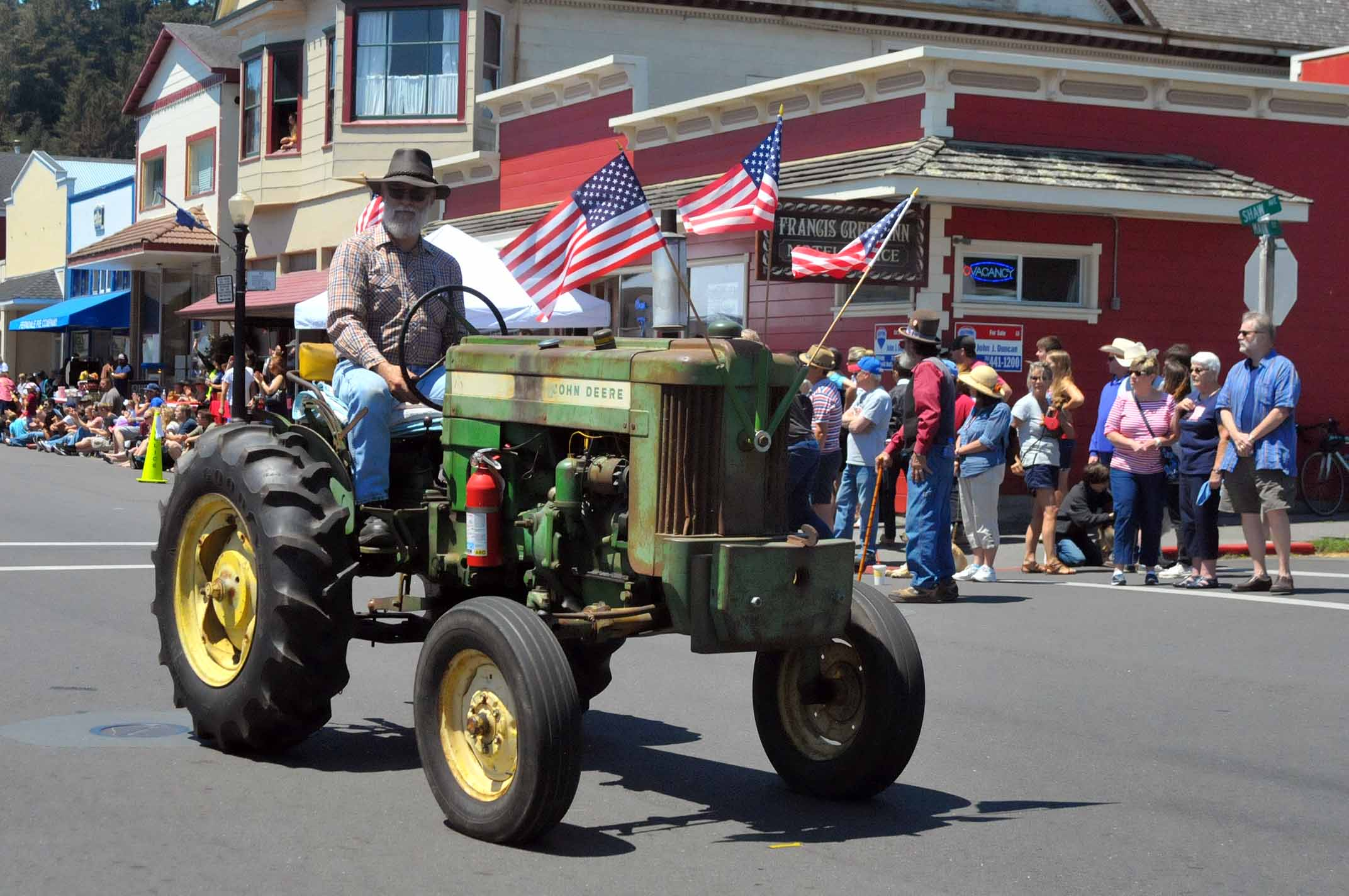 Decorated John Deere tractor at the annual 4th of July Main Street Parade in Ferndale, California.